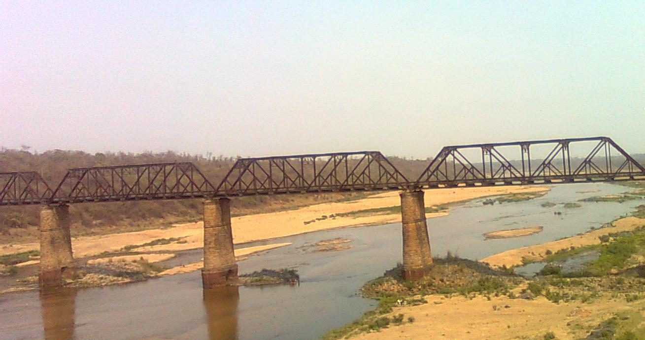 damodar river view from border of dhanbad bokaro